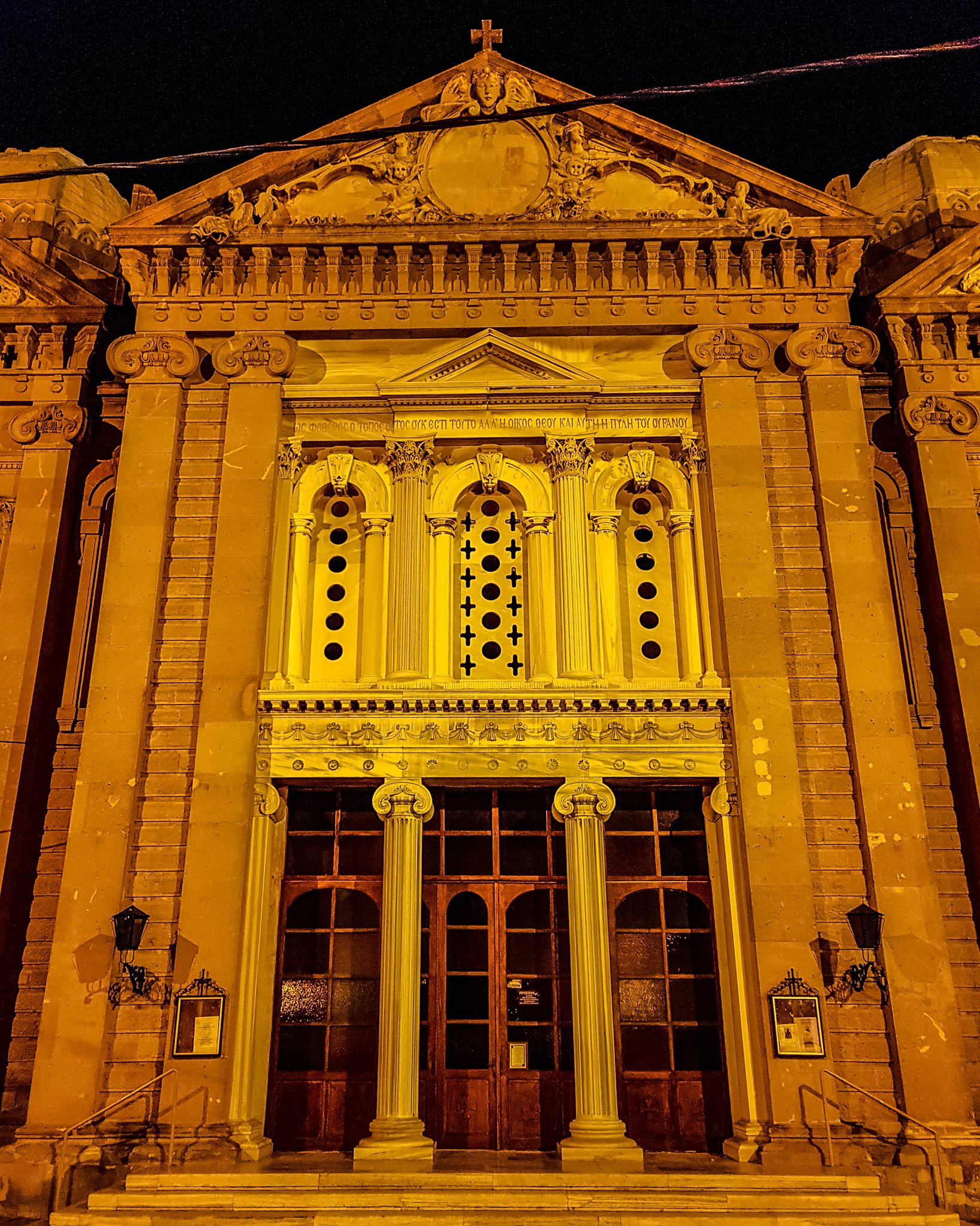 Church of Agios Therapontas